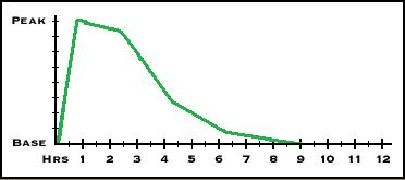 Psilocybin mushroom chart.